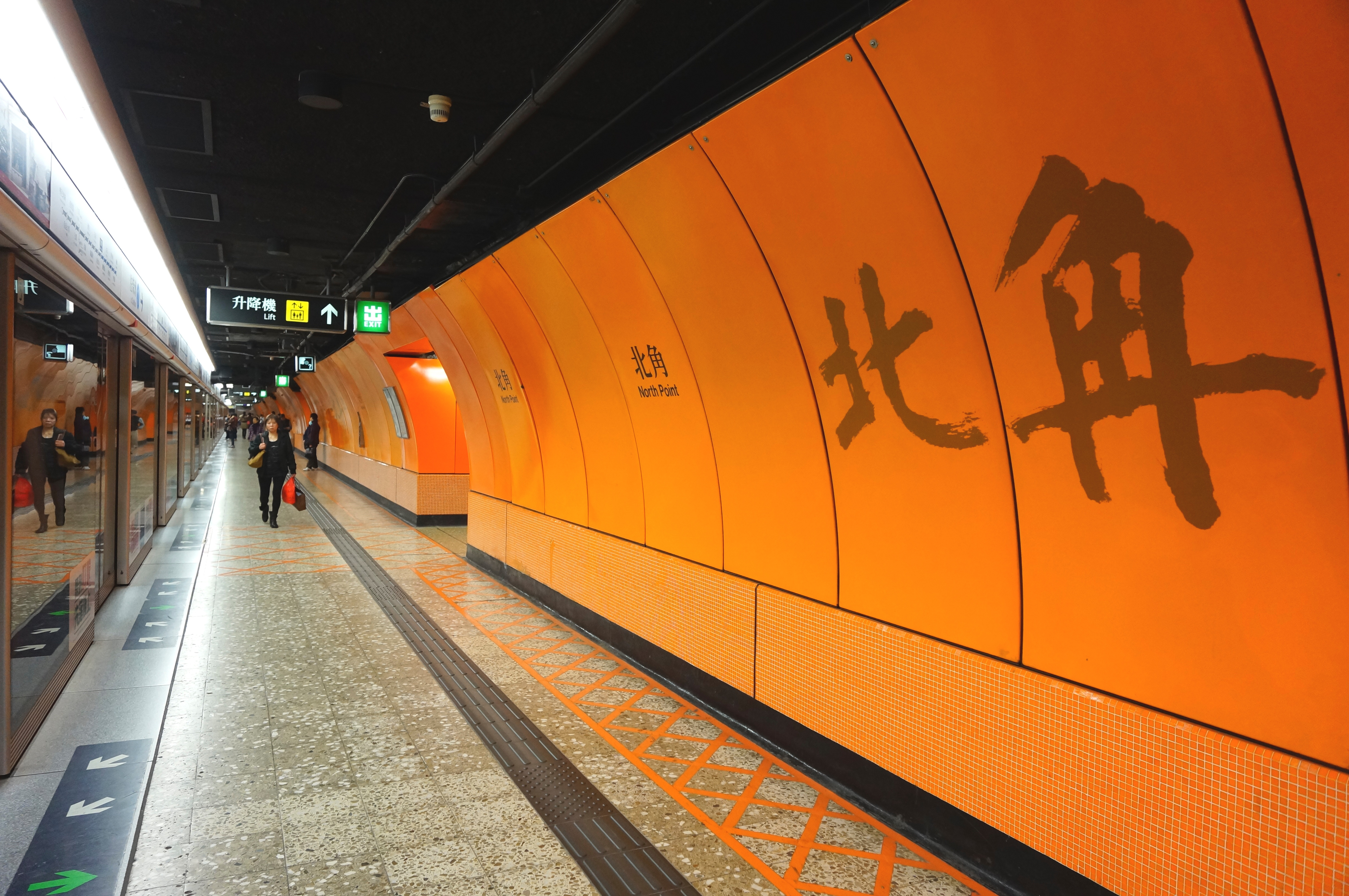 MTR North Point station Island Line platform